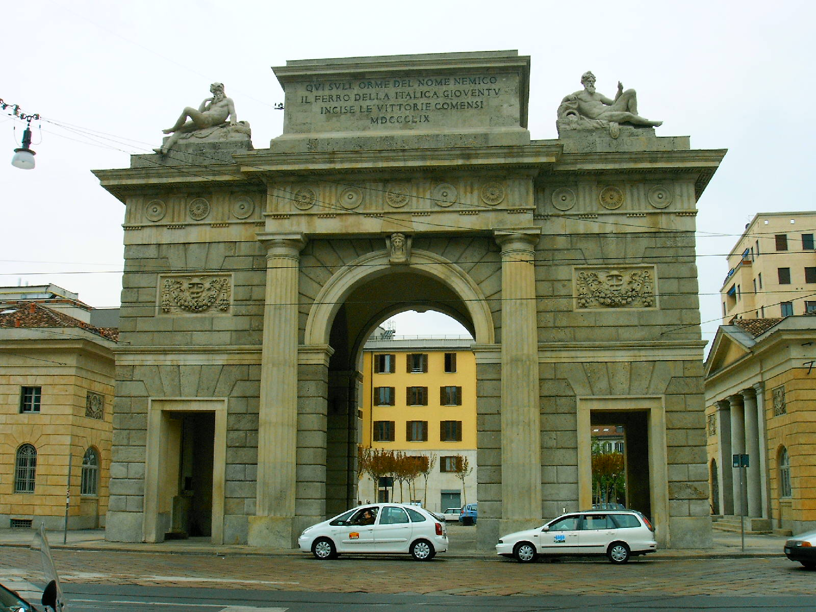 Porta Garibaldi Gate, Milano Italy - seen from Corso Como